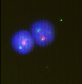 The picture demonstrates the FISH method.